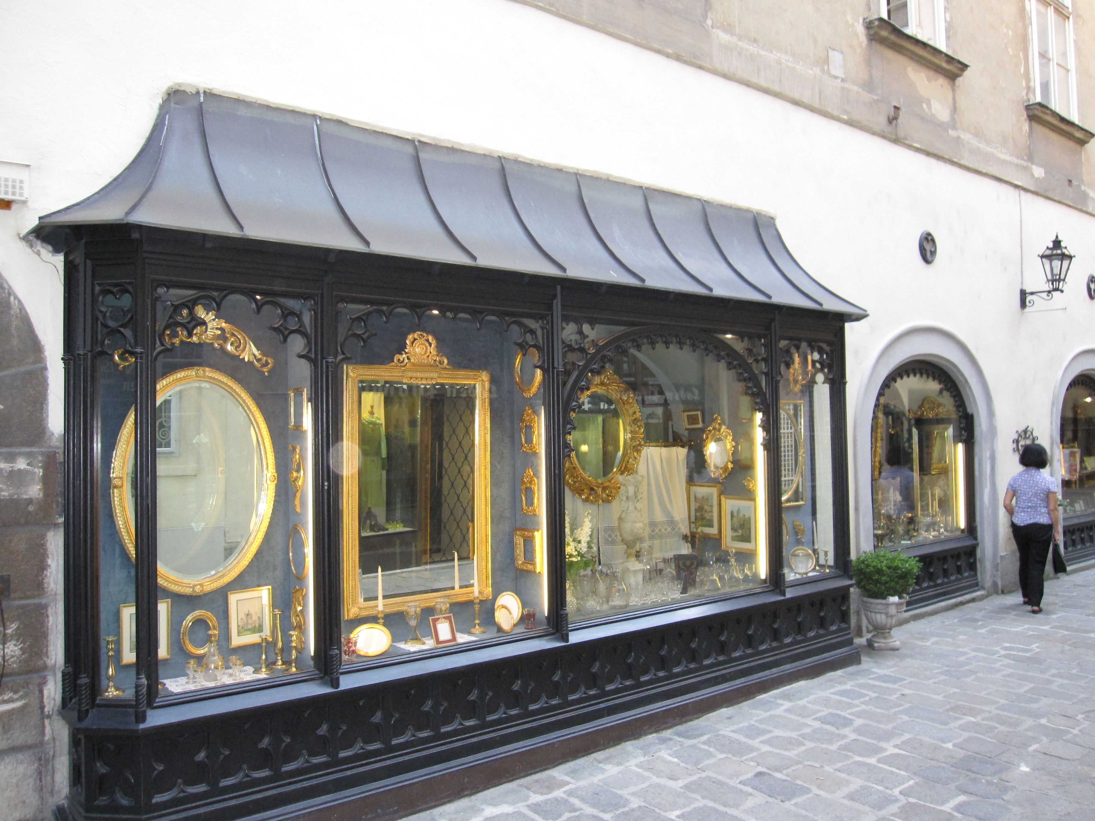 C. Bühlmayer in Vienna's I. district